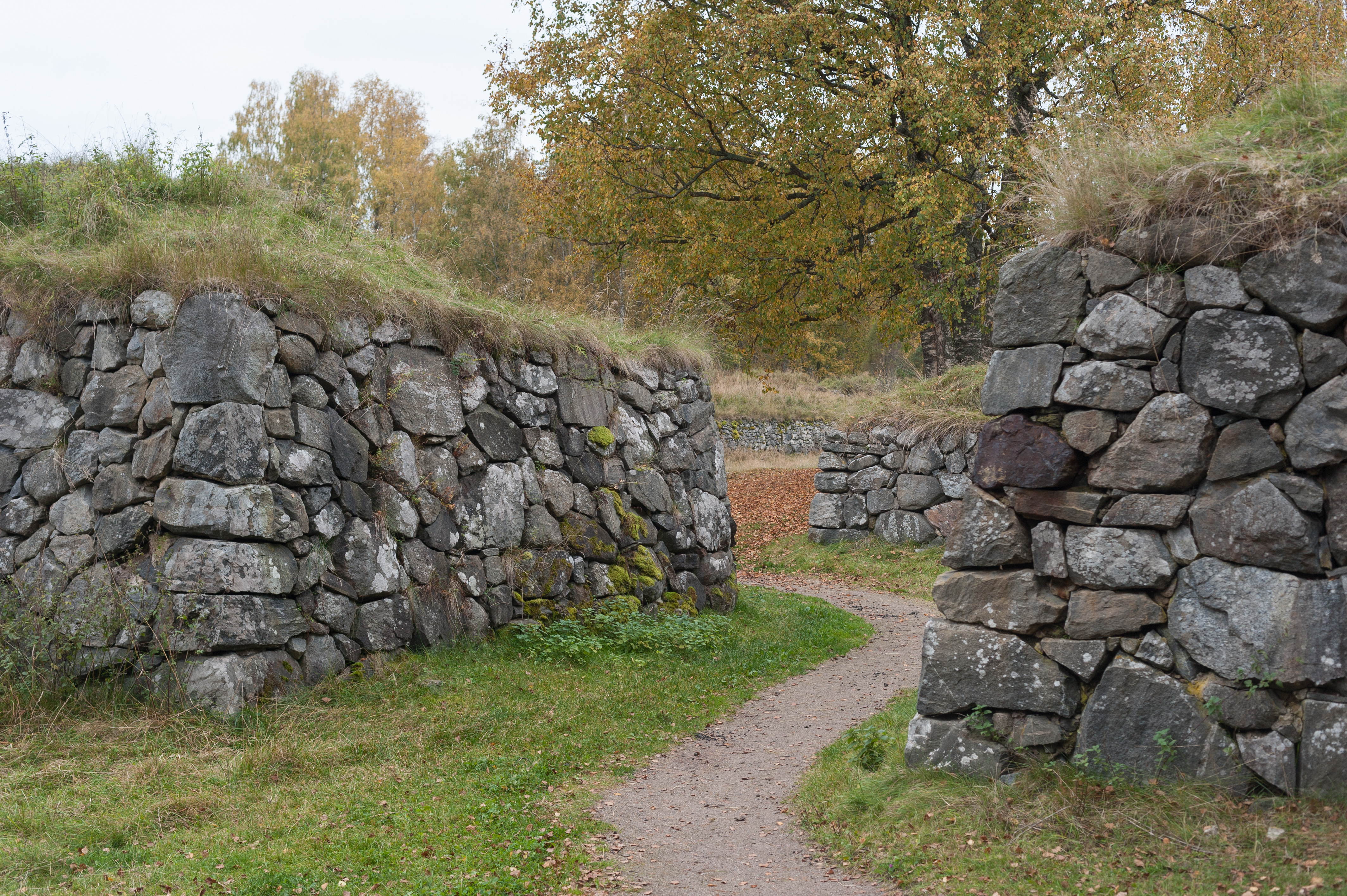 The fortress of Kärnäkoski in Savitaipale, Finland.